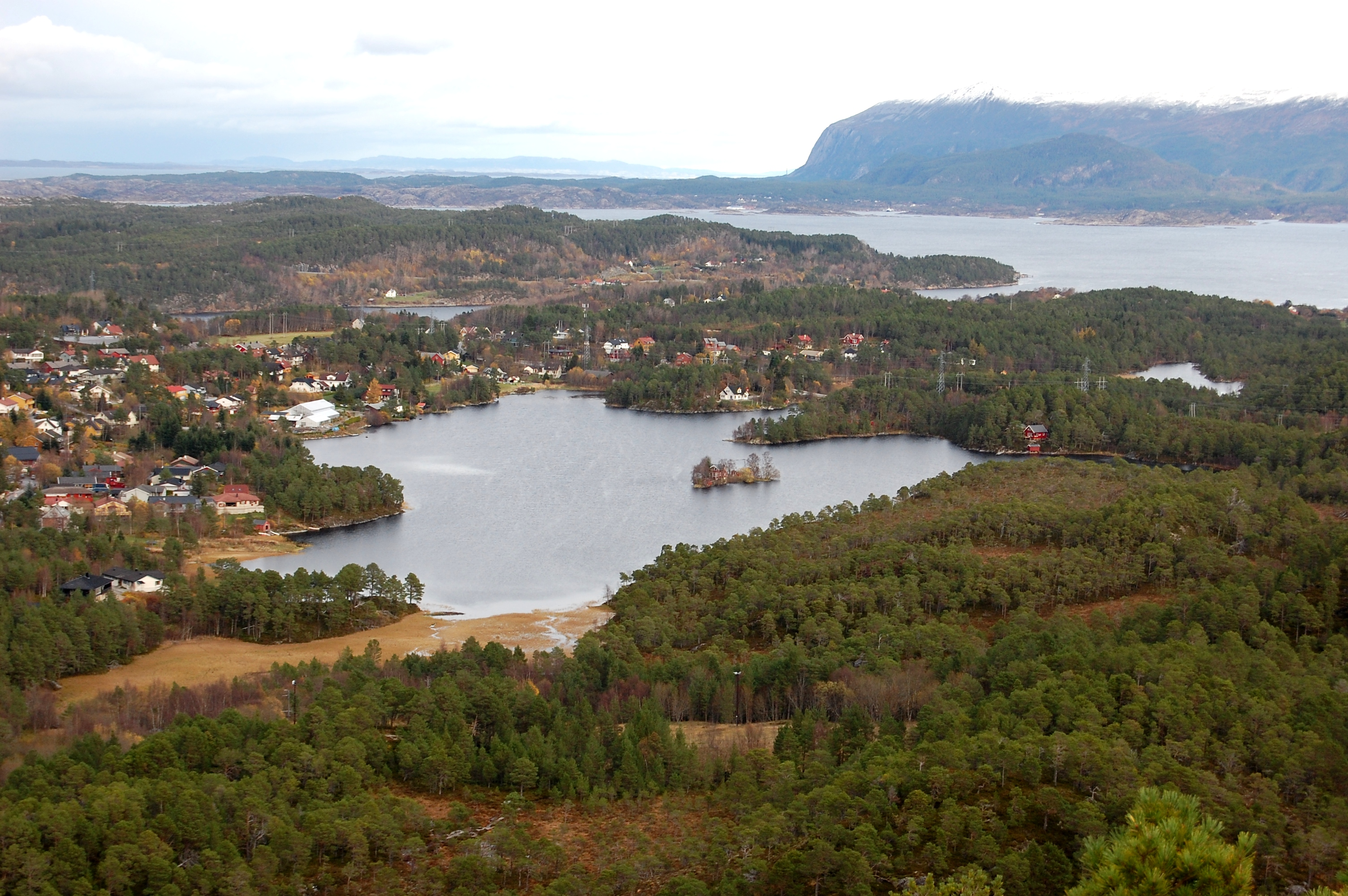 Rensvikvatnet in Kristiansund, Møre og Romsdal, Norway